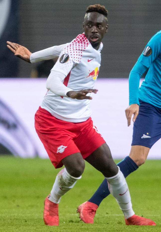 08.03.2018. Германия, Лейпциг, «РБ Арена». Лига Европы УЕФА 2017/18, 1/8 финала, «РБ Лейпциг» — «Зенит».